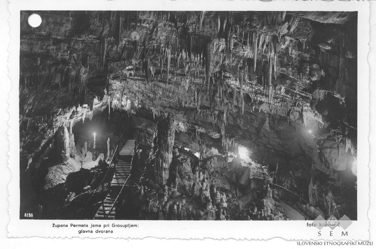 Postcard of Županova jama